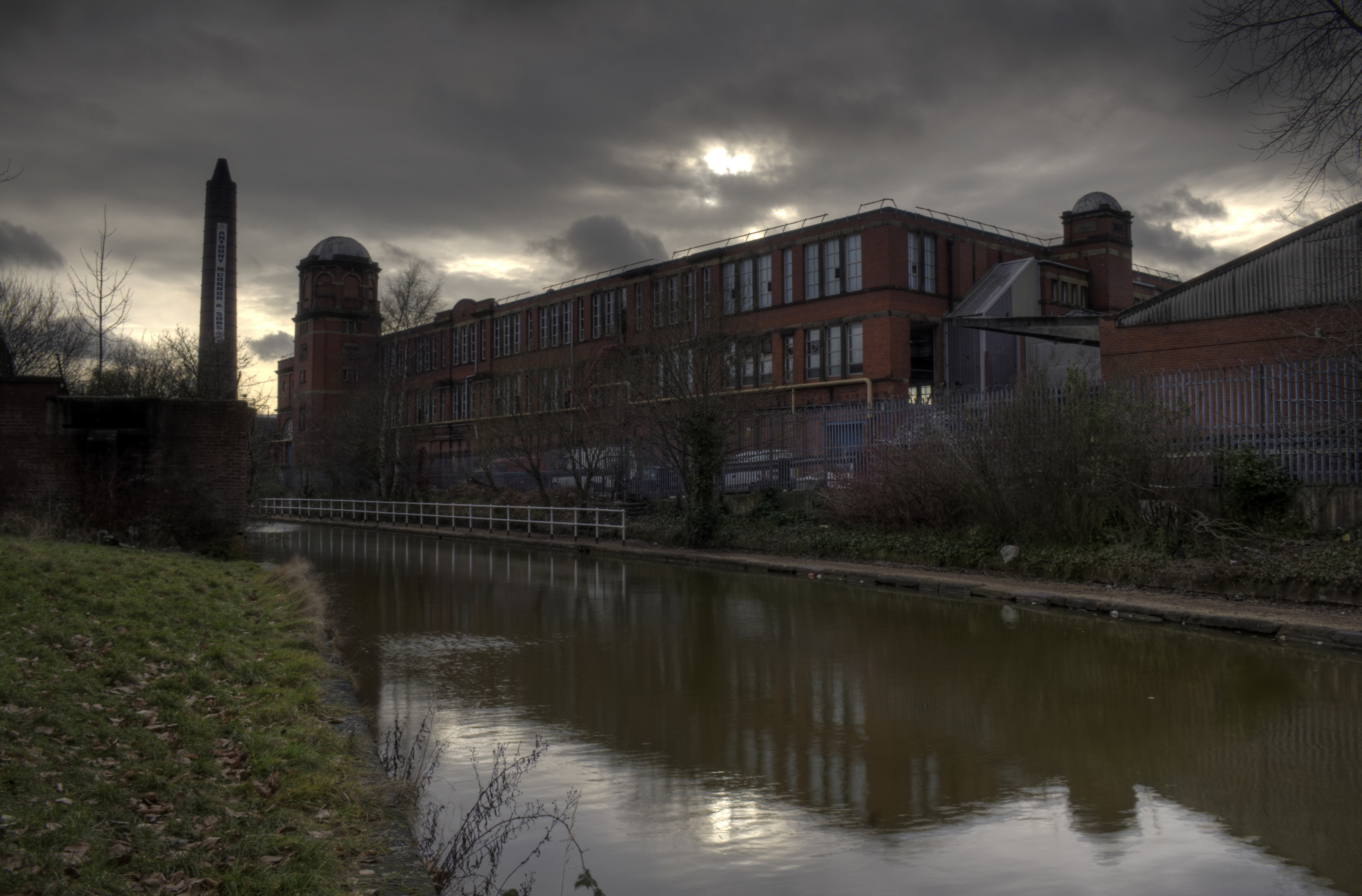 A mill alongside the Bridgewater Canal in Eccles. Eccles Spinning and Manufacturing Company", early 20th century. Apparently GUS stores recently, and currently destined for the chop. 2009.